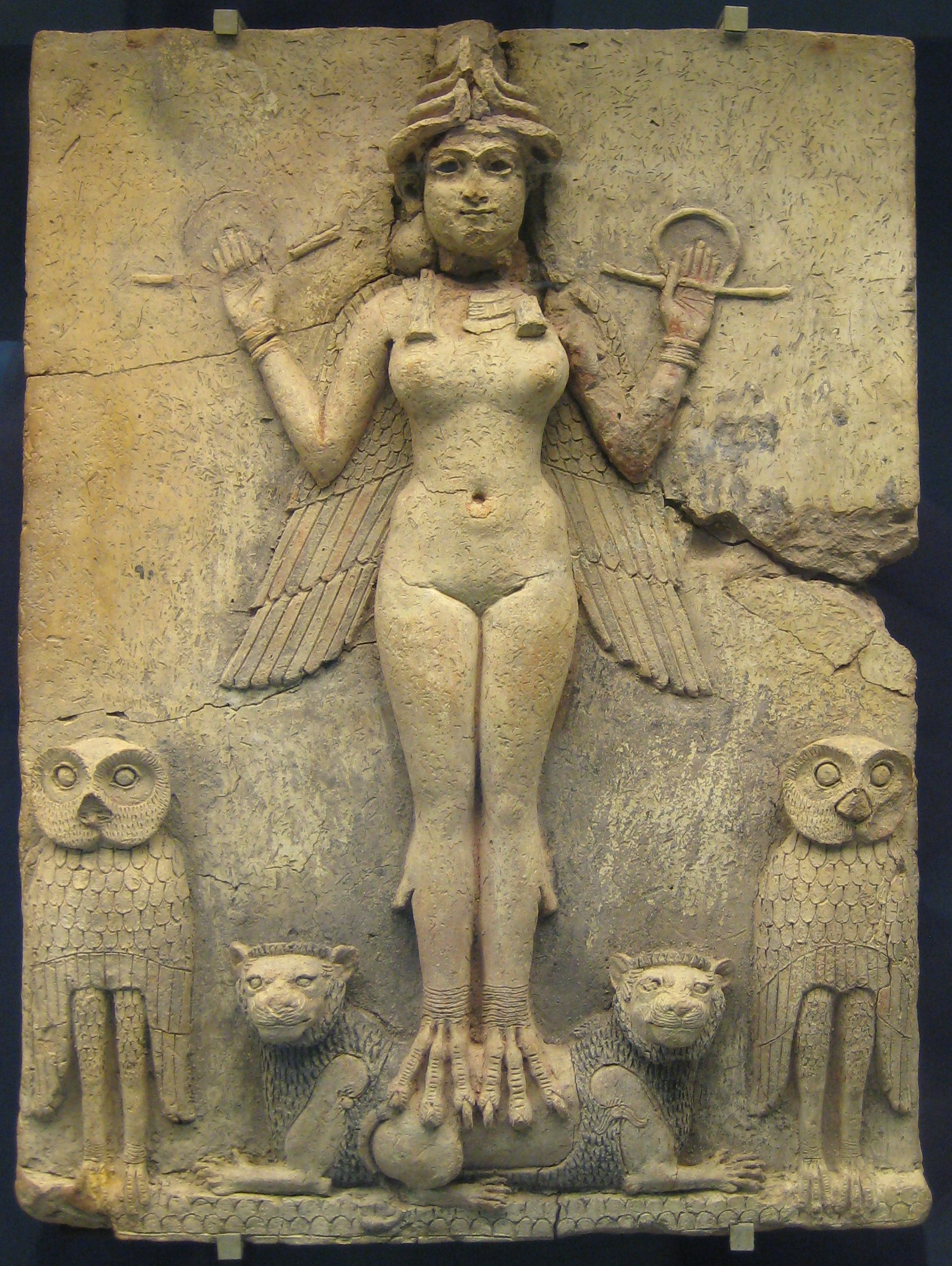 Rectangular, baked clay relief panel; modelled in relief on the front depicting a nude female figure with tapering feathered wings and talons, standing with her legs together; shown full frontal, wearing a headdress consisting of four pairs of horns topped by a disc; wearing an elaborate necklace and bracelets on each wrist; holding her hands to the level of her shoulders with a rod and ring in each; figure supported by a pair of addorsed lions above a scale-pattern representing mountains or hilly ground, and flanked by a pair of standing owls. Known as the "Burney Relief" or the "Queen of the Night".